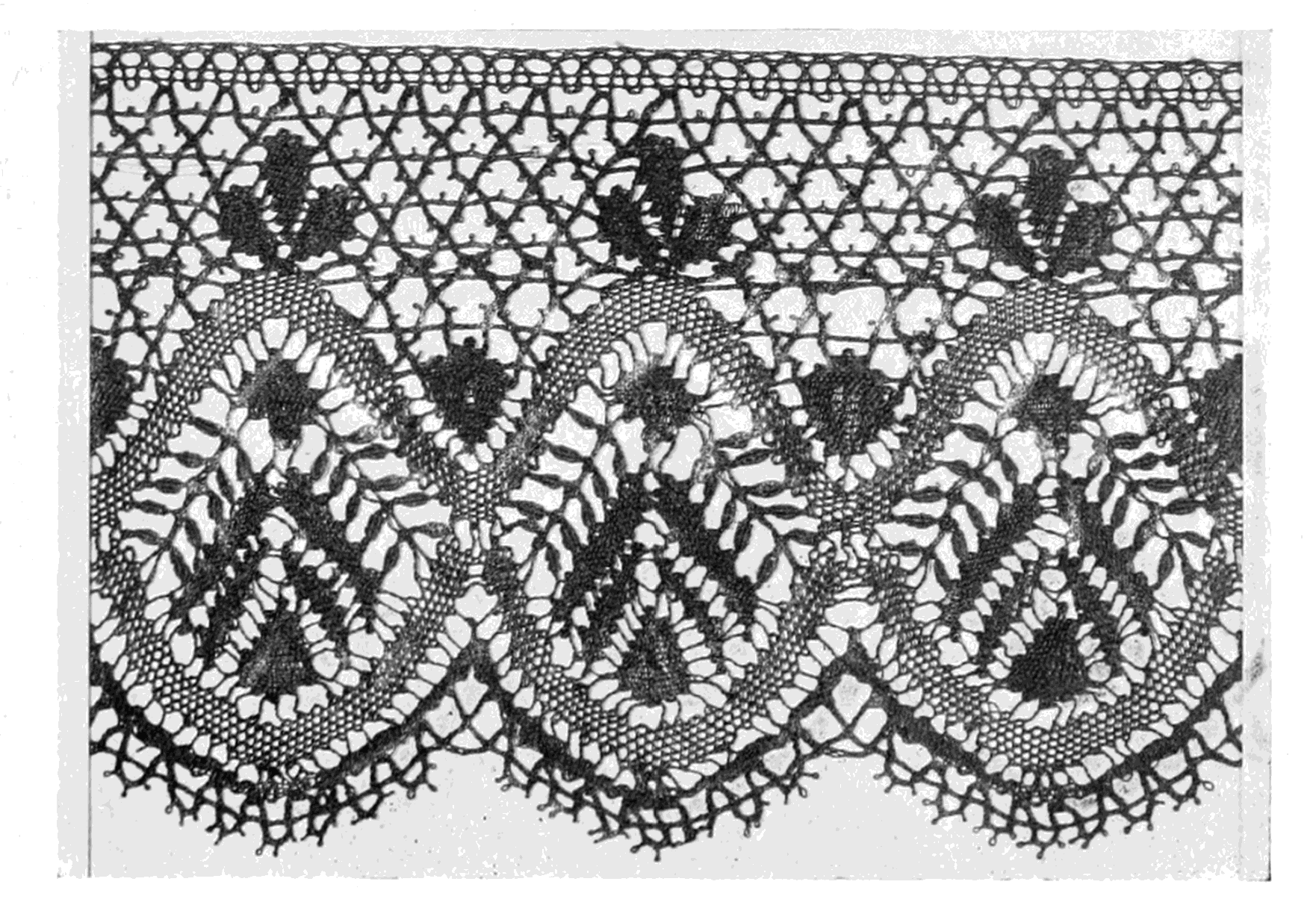 "Real Guipure."